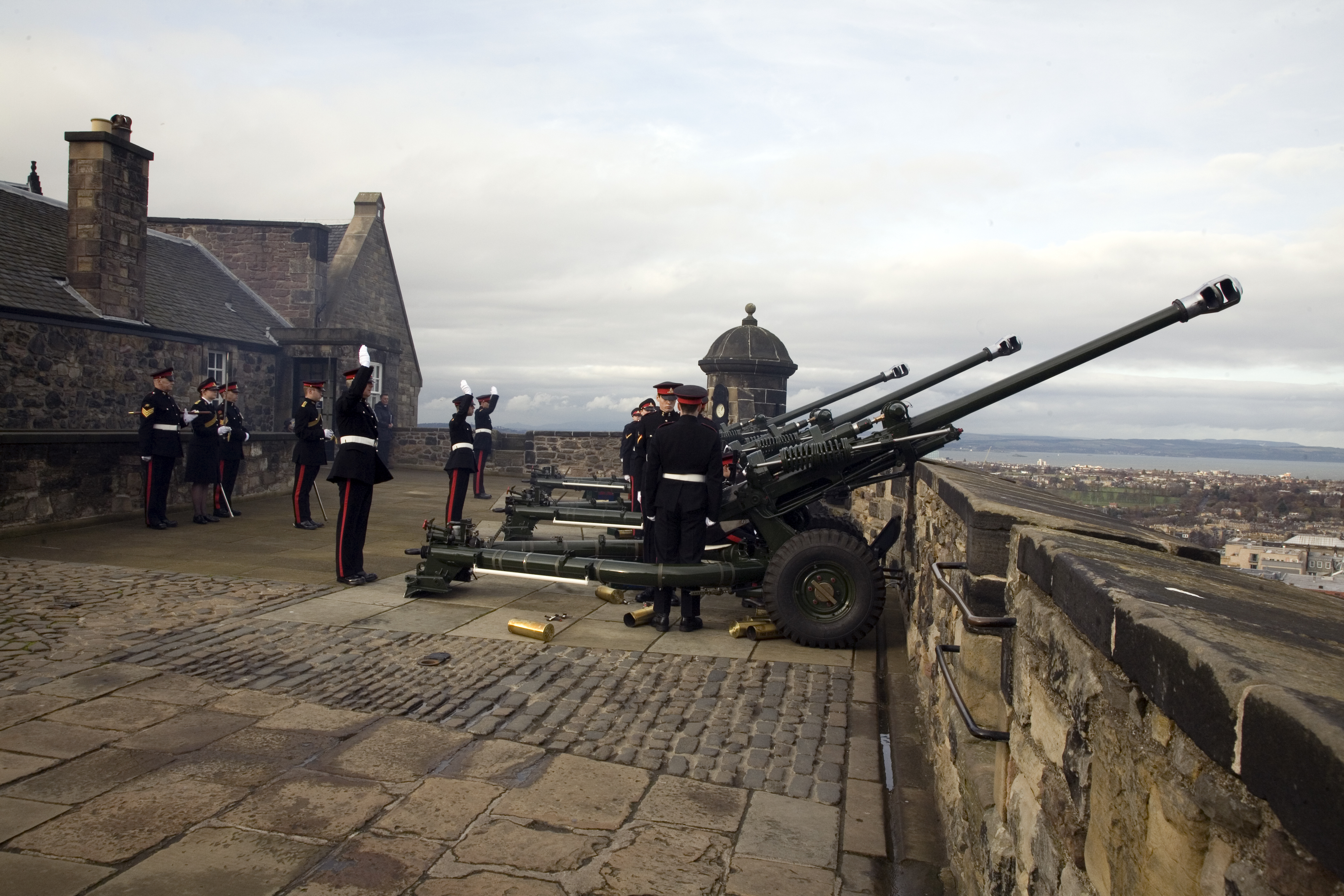 105th Regiment Royal Artillery firing a Royal salute at Edinburgh Castle